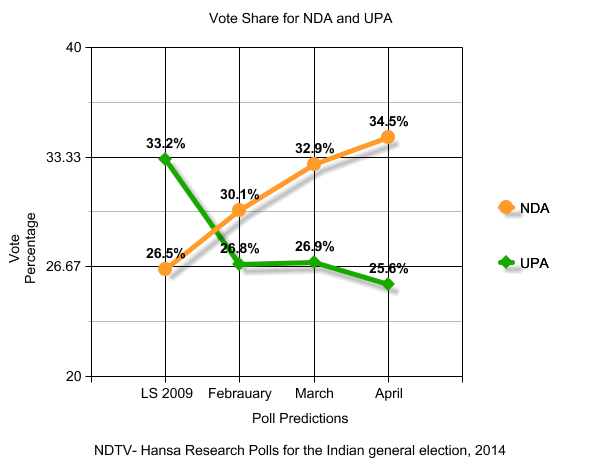 NDTV- Hansa Research Polls for the Indian general election, 2014.svg is a graph showing vote percentage for the election as researched in opinion polls using [1] and [2].